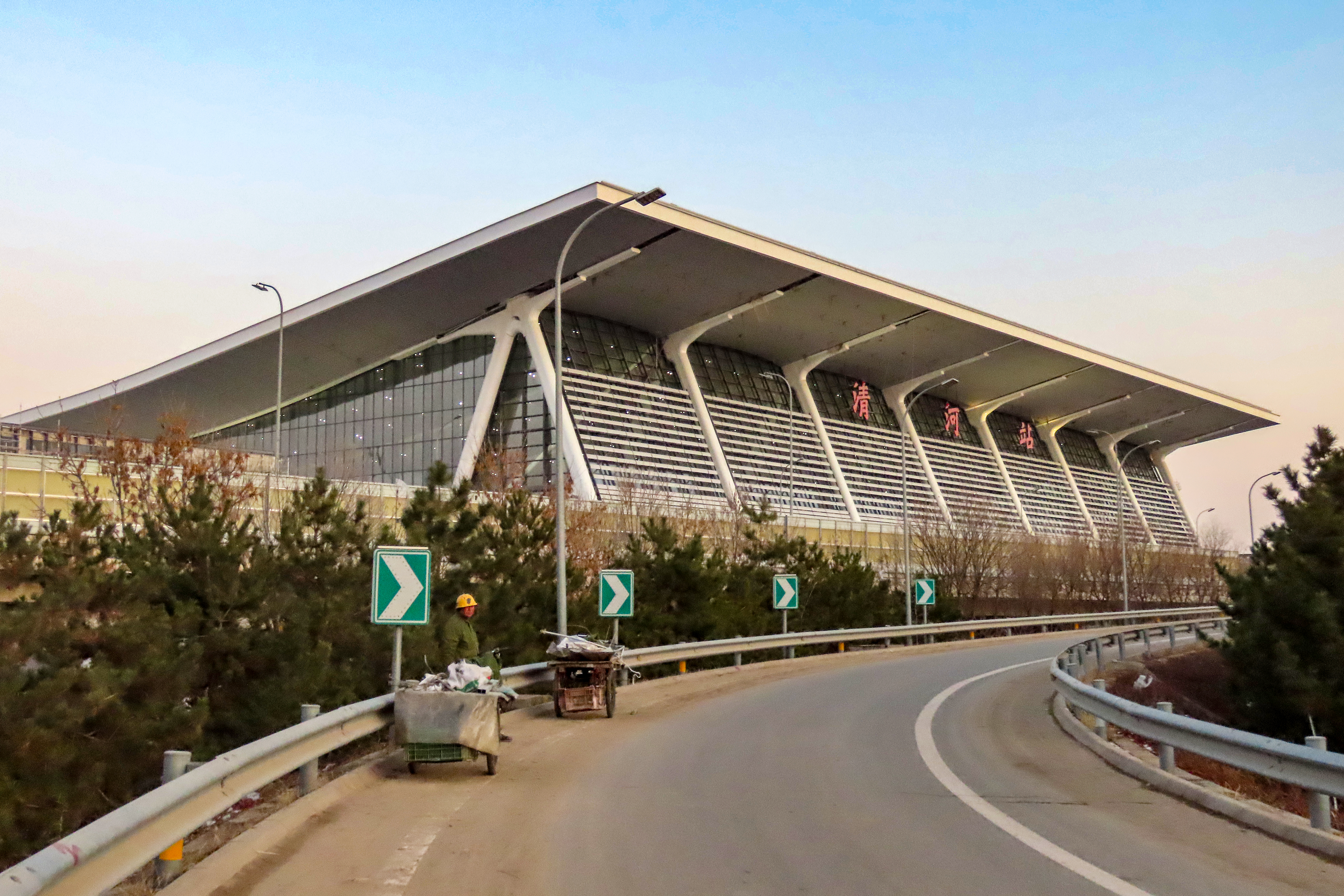 The three Chinese characters, written by Chen Zhaochang, are extracted from the old station.